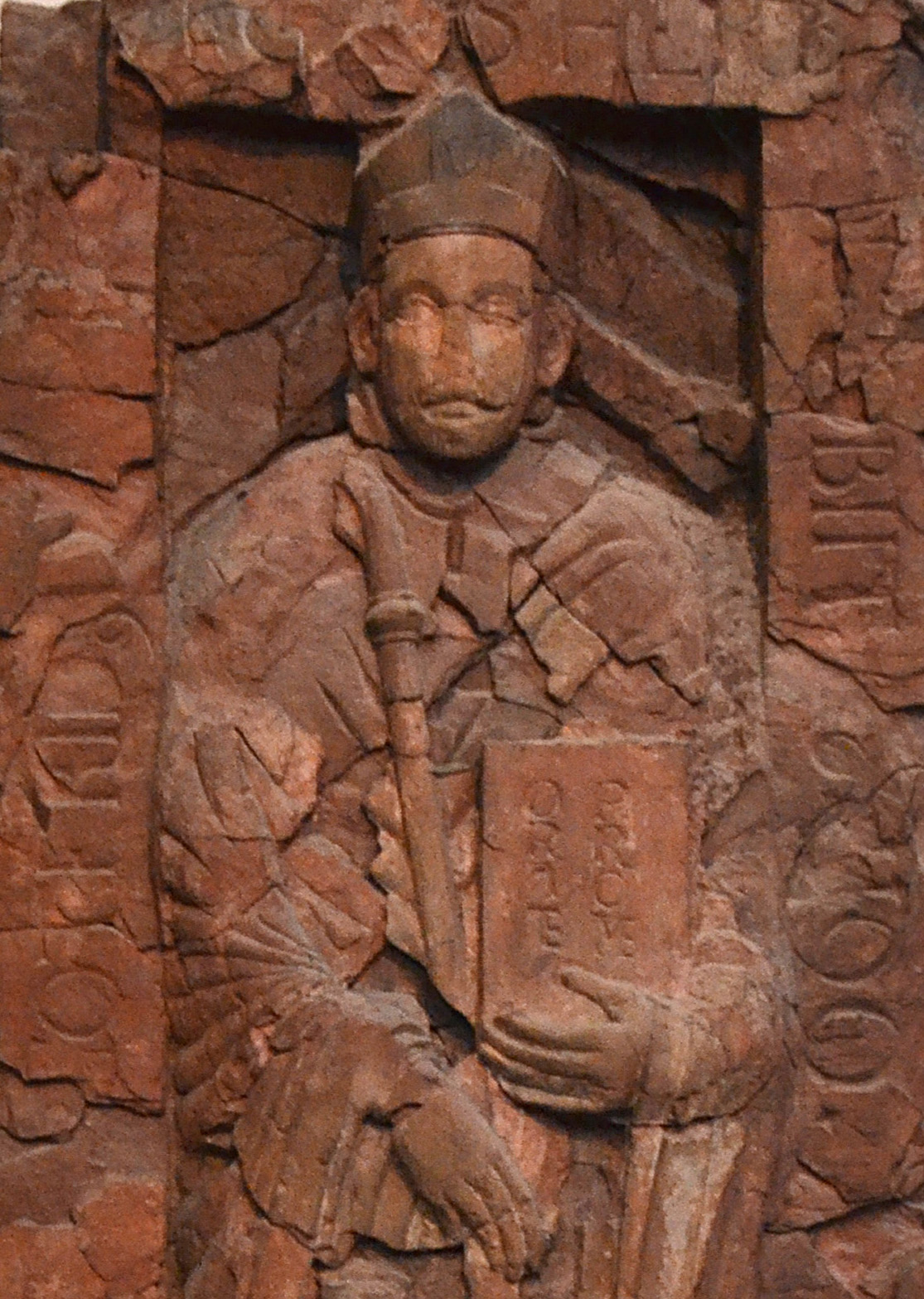 upper half of Gottfried von Spitzenberg grave, Wurzburg Dom